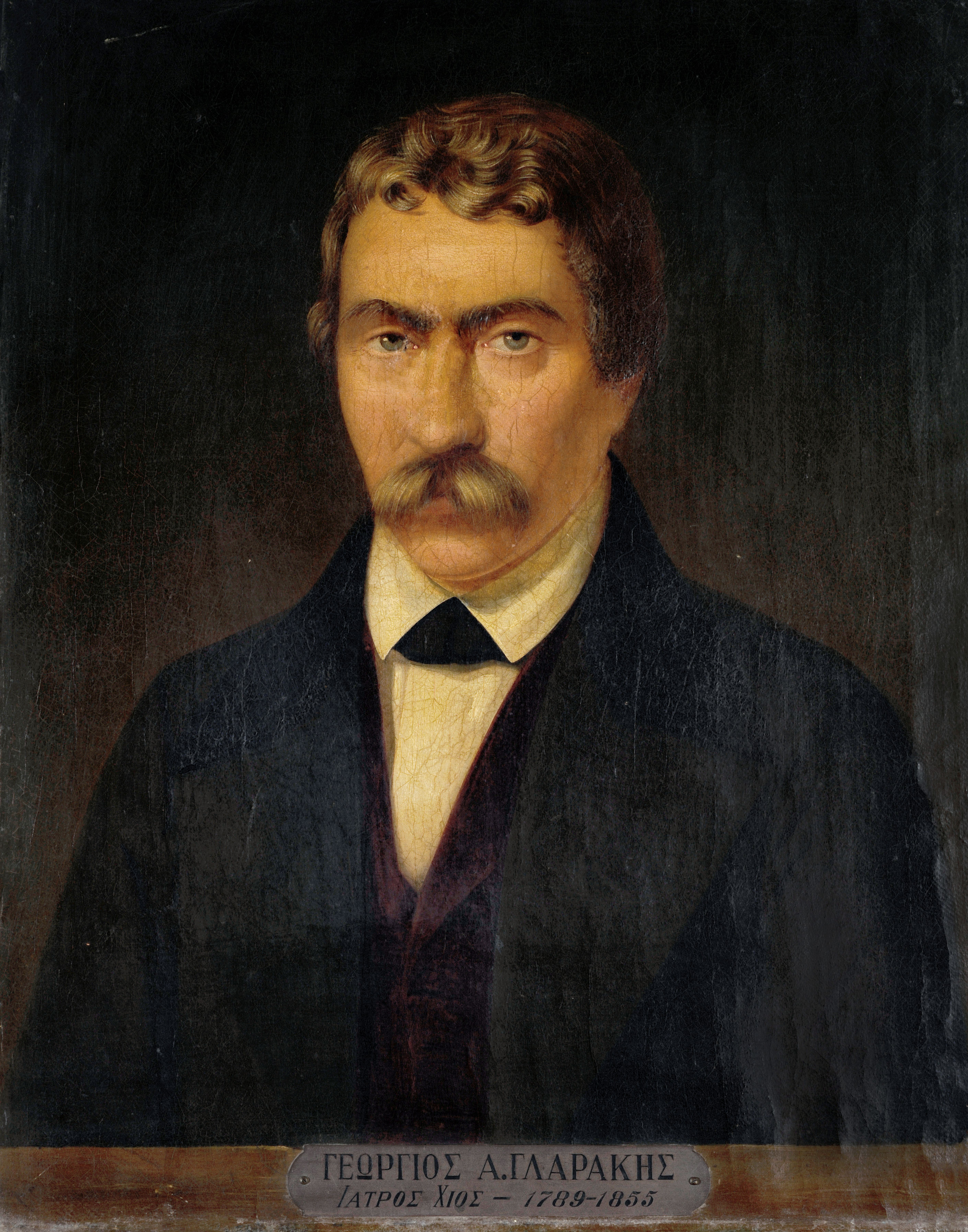 A digitally edited-improved copy of his portrait, which is in the National Historical Museum (ID 3932). It is posted at the entrance to 9th Primary School of Patras).